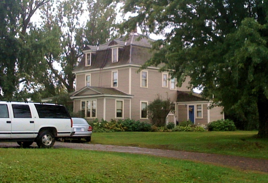 John A. Oldenburg House in Finlayson, Minnesota, listed on the National Register of Historic Places.